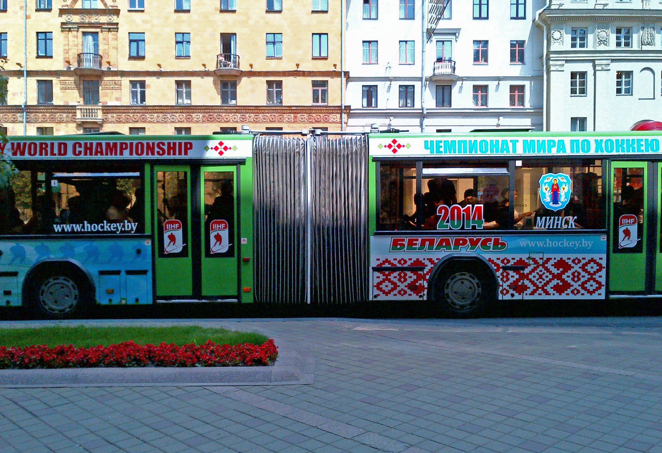 A public bus in Minsk advertising the 2014 IIHF World Championship.